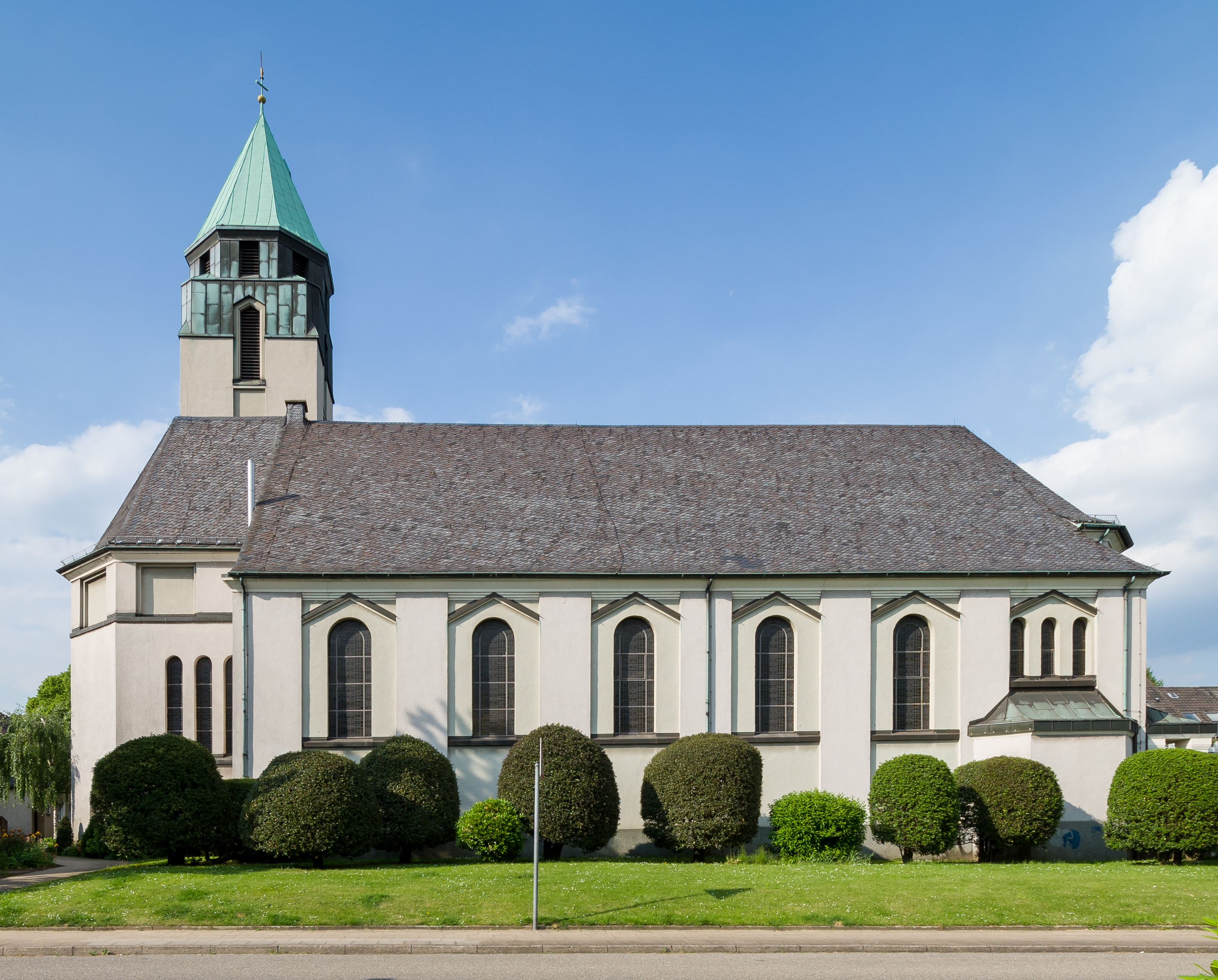 St. Antonius Abbas Church in Essen-Schönebeck